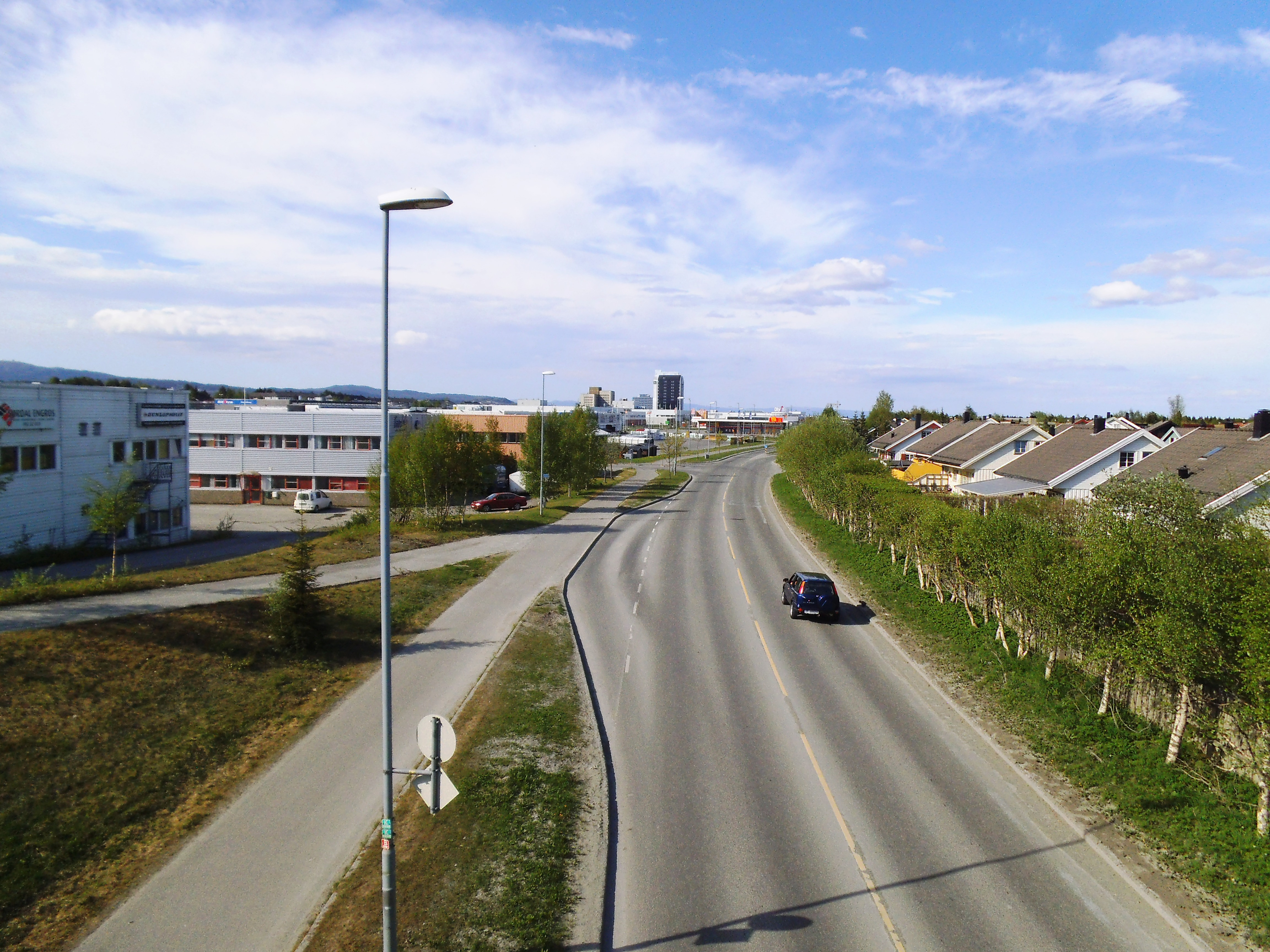 Fylkesvei 902 på Tiller i Trondheim. A main road in Tiller, a suburban area of Trondheim. Direction north, towards downtown Trondheim.